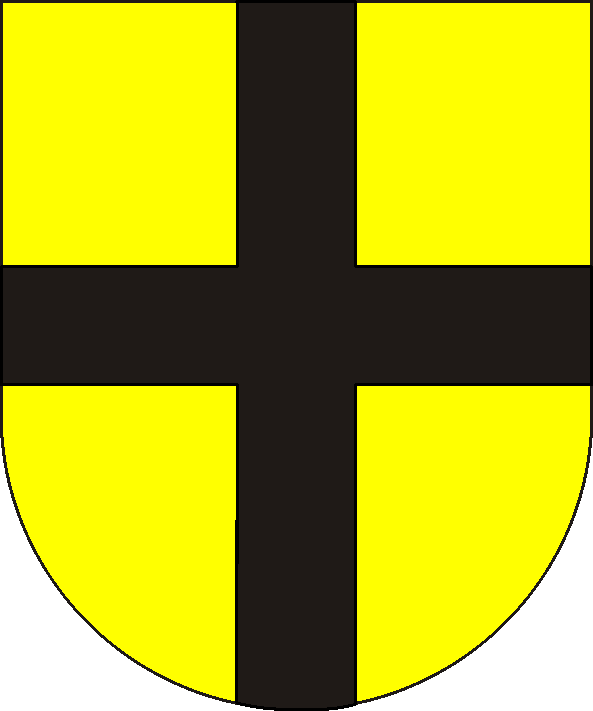 coat of arms